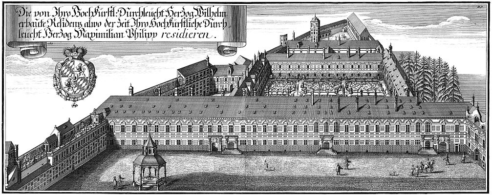 Herzog Wilhelmsche Residenz in München (Maxburg) by Michael Wening, 1701 as seen from south